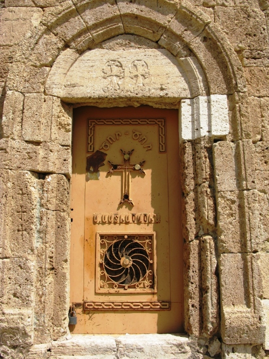 Portal of the church, Dzor Dzor Monastery, Iran